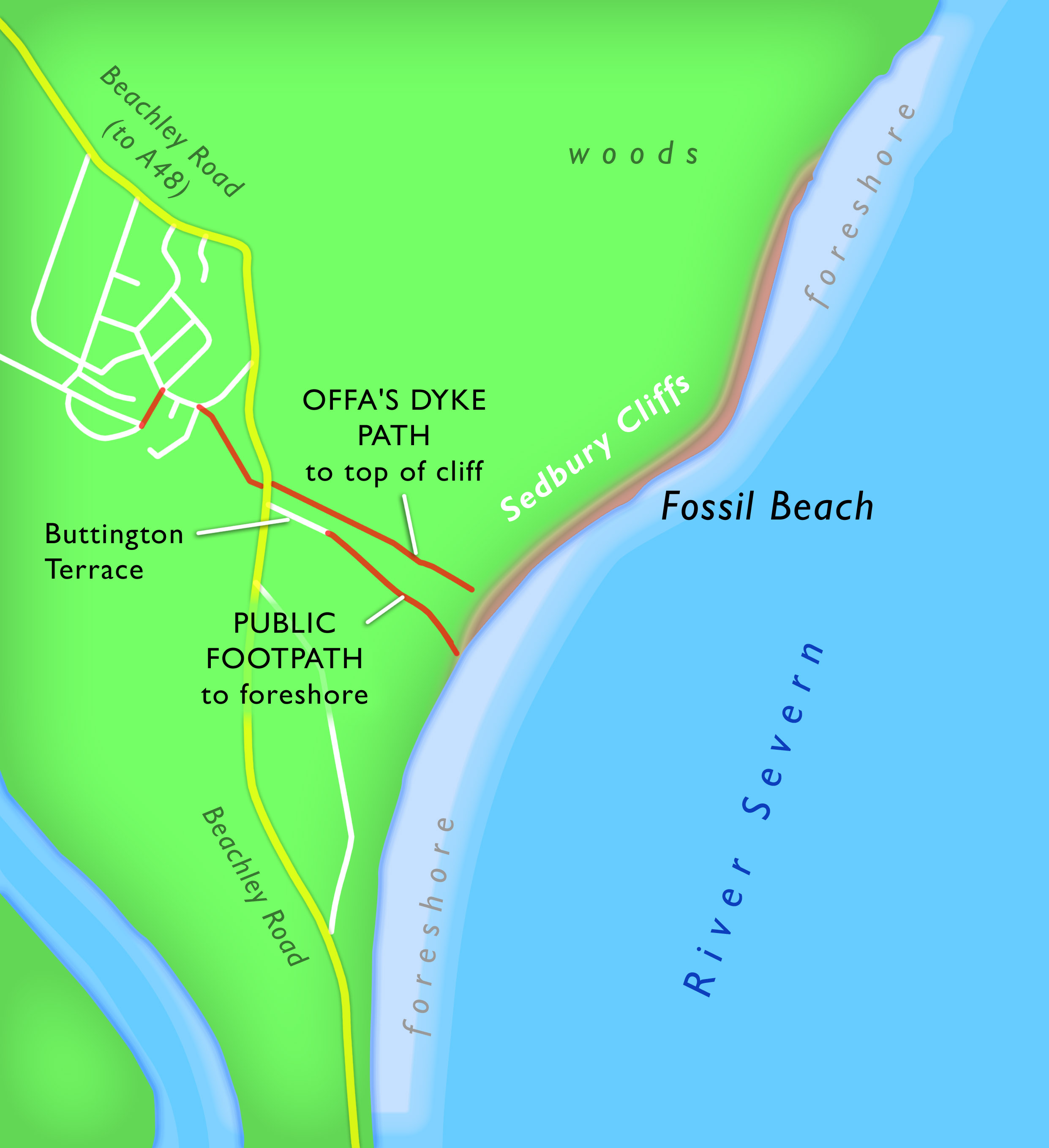 A map of Sedbury, Gloucestershire, showing access to Fossil Beach below Sedbury Cliffs.